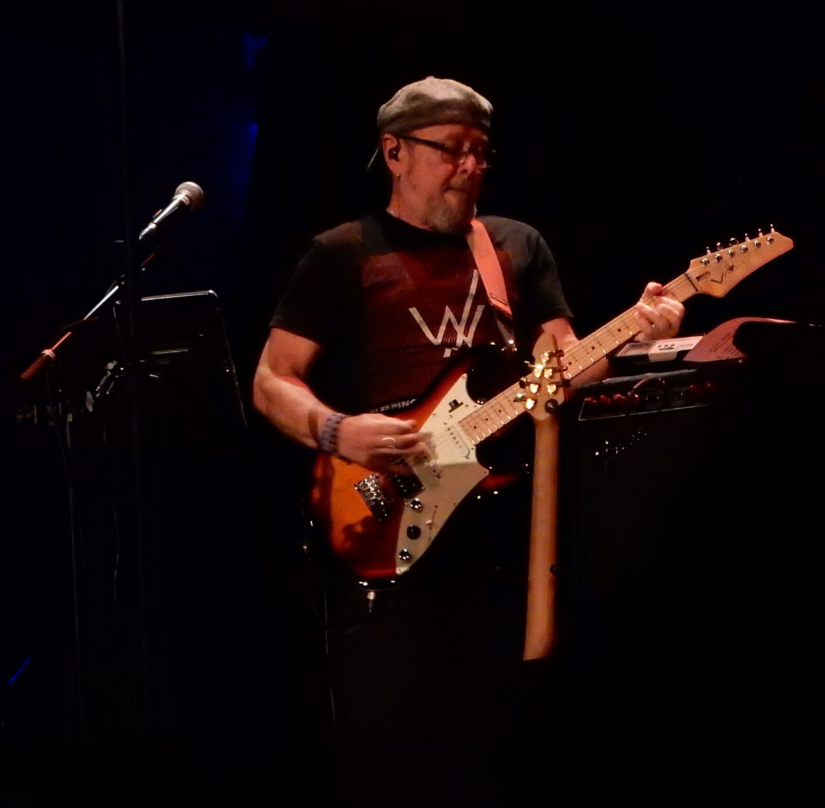 Johnne Sambataro onstage at The Neptune Theatre in Seattle